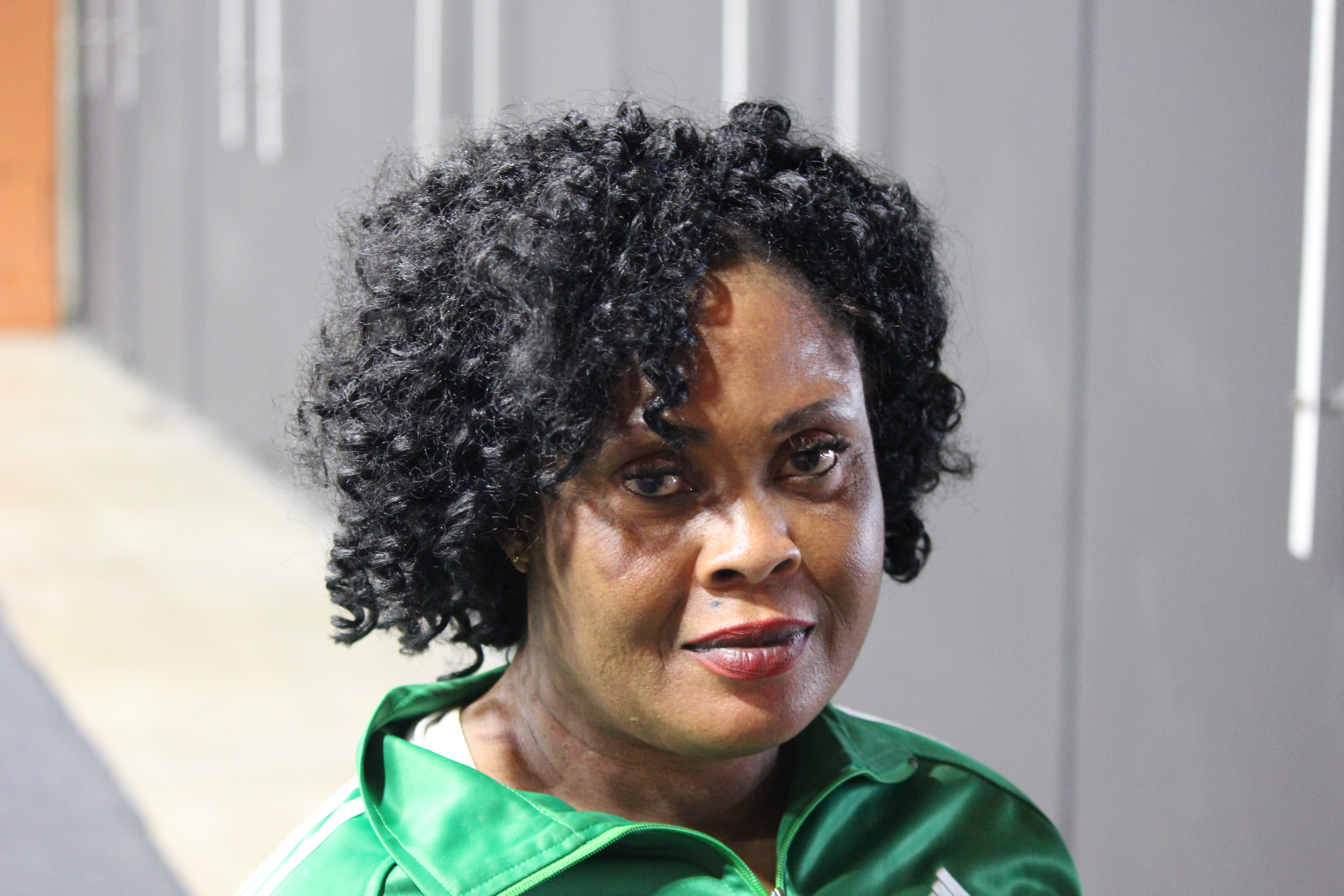 Nigerian powerlifter, believed to be Lucy Ogechukwu Ejike.